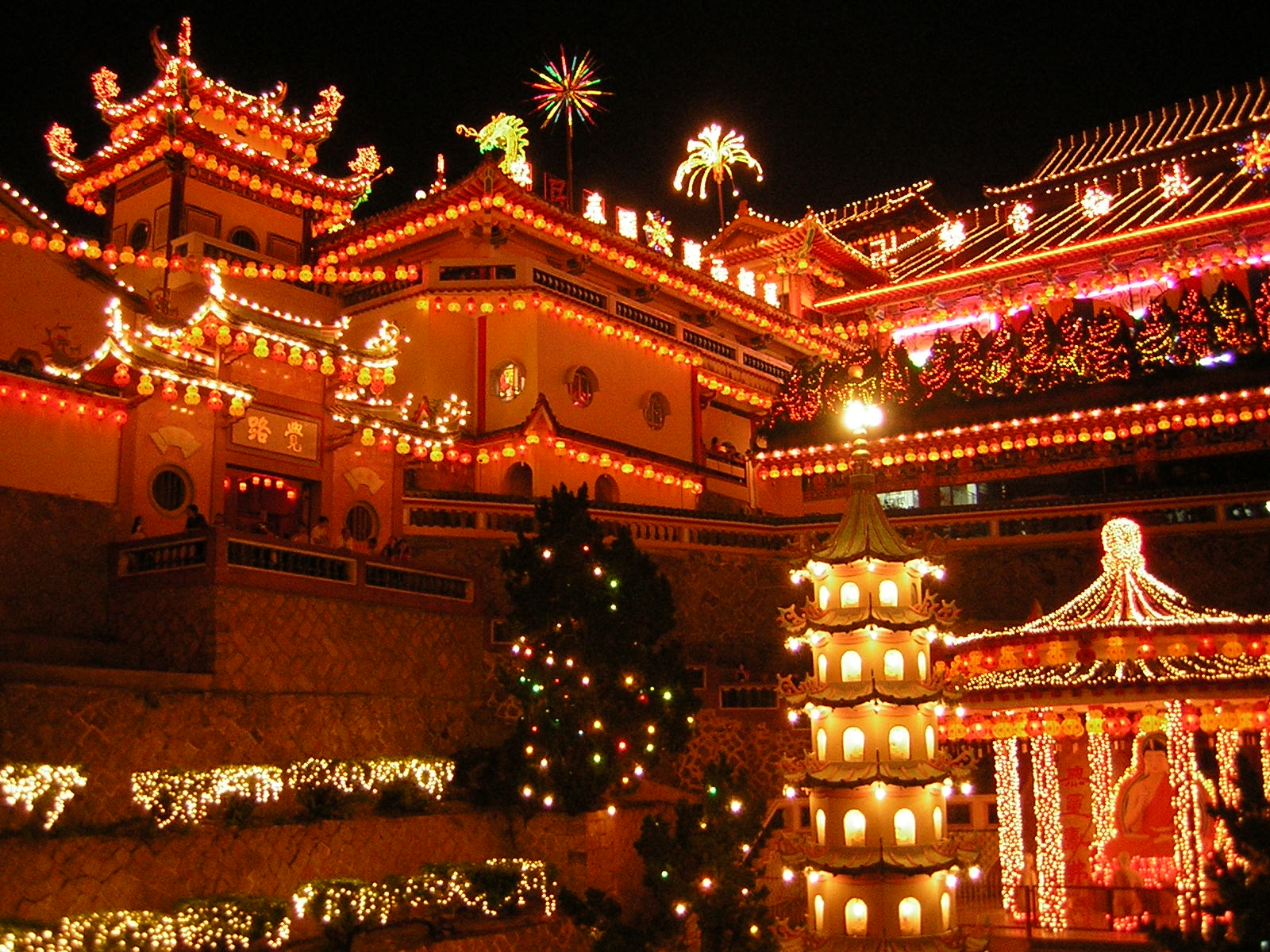 The Ke Lok Si Temple in Penang, Malaysia, brightly illuminated in the nights following Chinese New Year